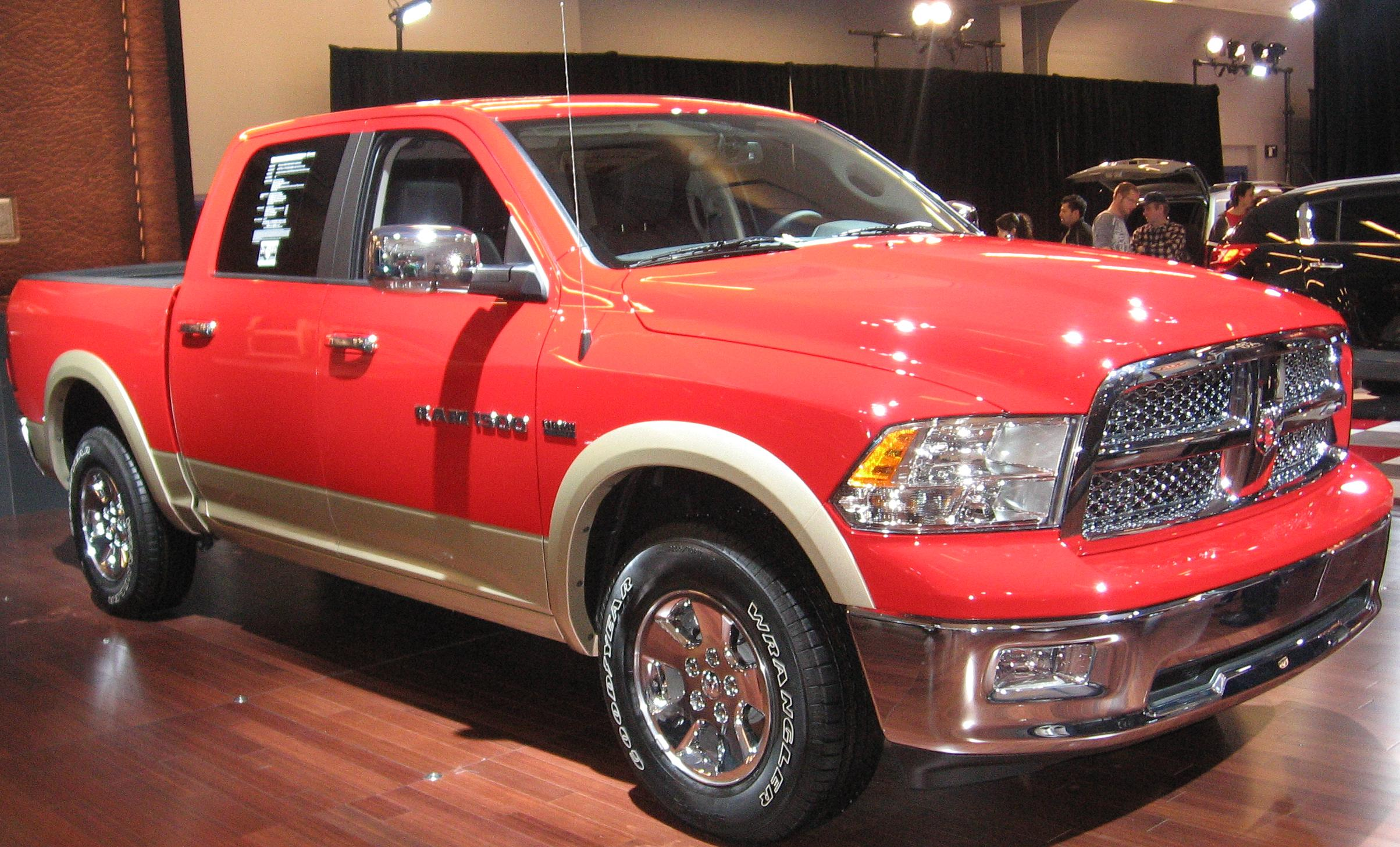 2011 Ram 1500 photographed in Montreal, Quebec, Canada at the 2011 Montreal International Auto Show